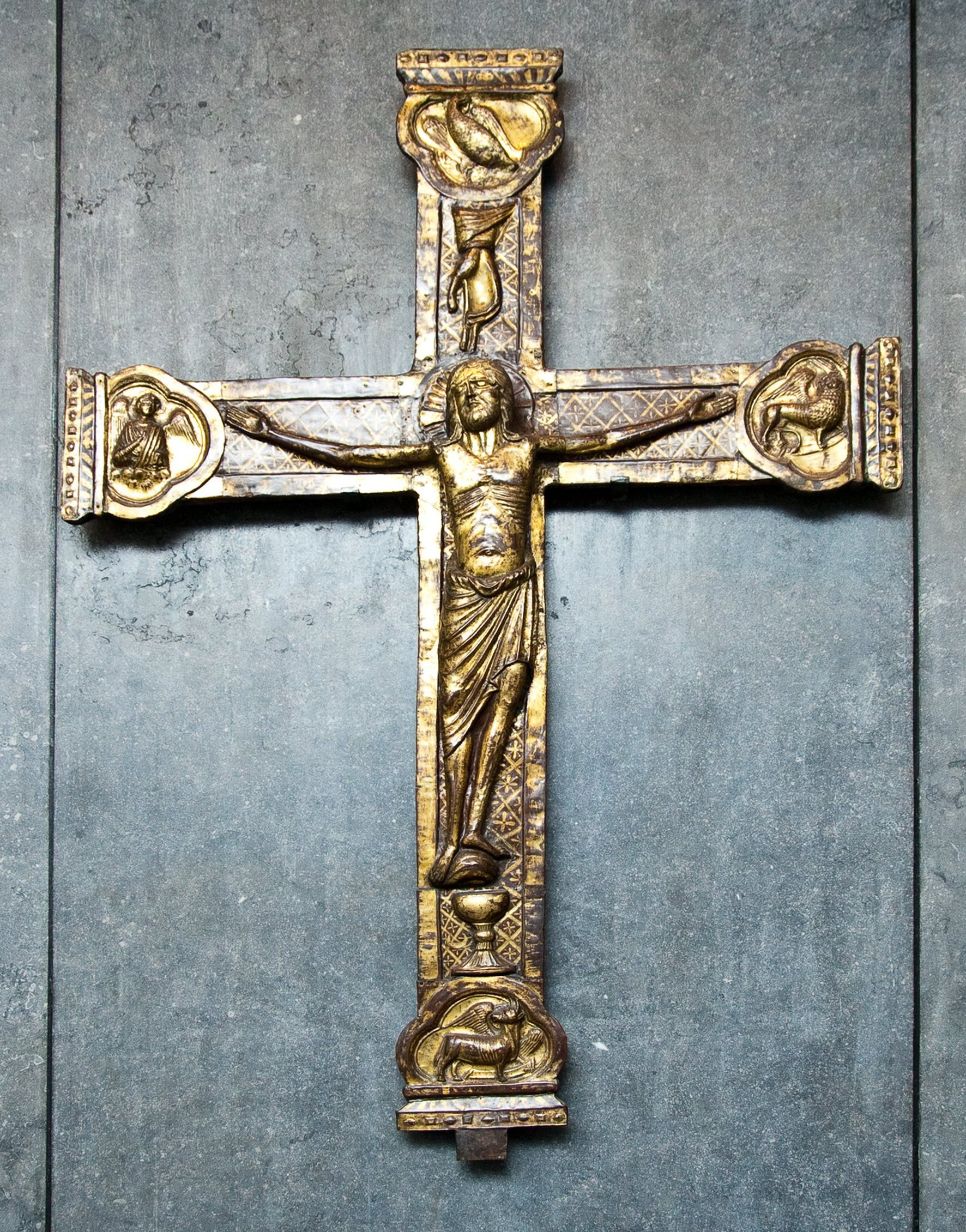 A crucifix from Ørting Church Near Odder, Denmark. Dates to ca. 1225. On display at the National Museum in Copenhagen, Denmark